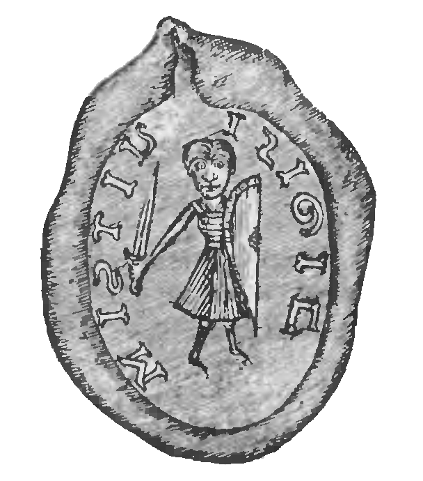 seal of Mestvinus duke of Pomerania XIII century